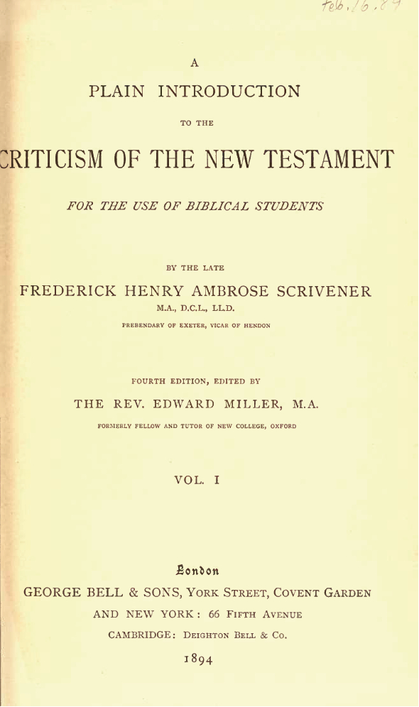 Title page from the 1st volume